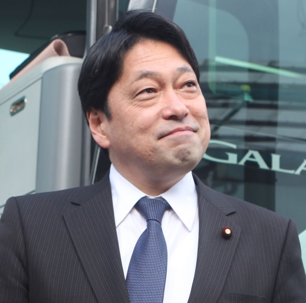 Itsunori Onodera, Japanese Minister of Defense